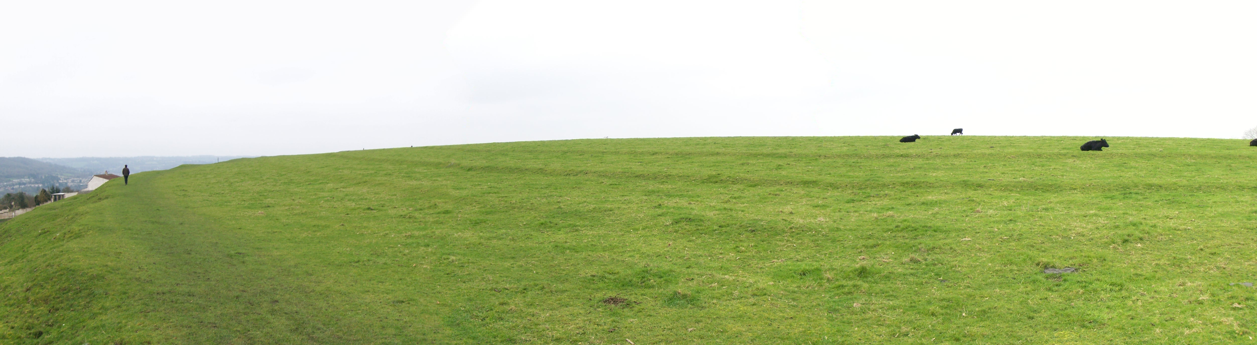 The top of Solsbury Hill near Bath, England Atlas of Hillforts 3963